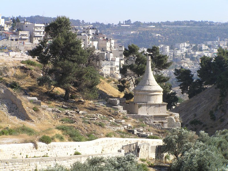 Yad Avshalom, on Mt. Olives slopes, Jerusalem Photographed by Eman on June 2005